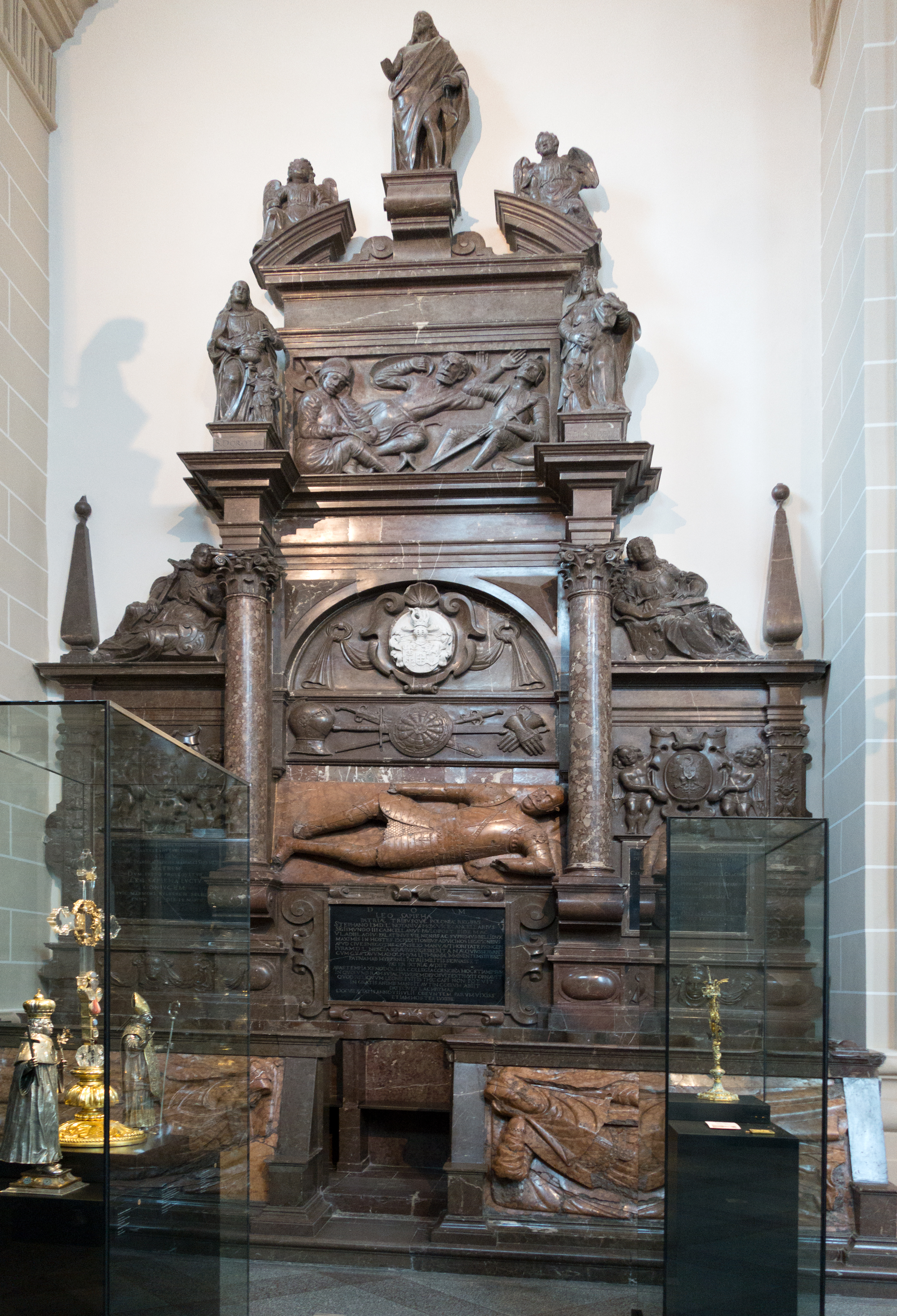 The Church and the Convent of St. Archangel Michael in Vilnius - the Church Heritage Museum. The largest group tombstone for Leonas Sapiega and his wives Dorota Firlej (†1591) and Elžbieta Radvilaitė (†1611), made from marble and the only one of its kind surviving in Lithuania, is spectacular by its size and abundance of decor. The tombstone is surmounted with a sculpture of the Resurrected Christ symbolizing eternal life, and under the sculpture, a relief representing sleeping soldiers is set up. The sculptures of the patron saints of both wives – St. Elisabeth and St. Dorothea – on both sides of the relief refer to divine protection. Below, allegoric personifications of Christian virtues – Faith and Hope – rest on the coats-of-arms of their families. The tombstone was created approximately in the second quarter of the 17th c. according to the innovatory principles of composition of architectural tombstones, but three earlier images of Sapiega and his wives in relief, executed in a more primitive manner, were used in its structure. It is thought that they decorated a tombstone in the Vilnius Cathedral before the Church of St. Archangel Michael was built.